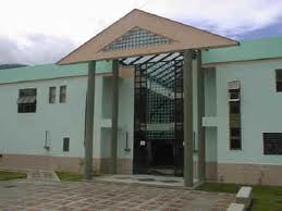 Ipasme Boconó.